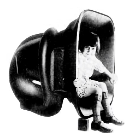 Large antique horn loudspeaker from 1927 electrical engineering magazine, with girl sitting in mouth to show the scale. Before cone-type loudspeakers took over around 1930, radios and phonographs used horn loudspeakers, because they were more efficient; they could produce ~10 dB (10 times) more sound power from the low power vacuum tubes then in use. However to reproduce bass frequencies adequately the horn had to have a large mouth and long sound path, at least 6 feet long. The walls are made of a heavy composition material, often cloth impregnated with cement, so they do not vibrate and resonate when the sound passes through them. This was a high fidelity speaker probably used either in a theater or a large expensive cabinet type radio. The speaker tube is 10 feet long, wrapped around the horn body, and the unit weighed 185 lb.